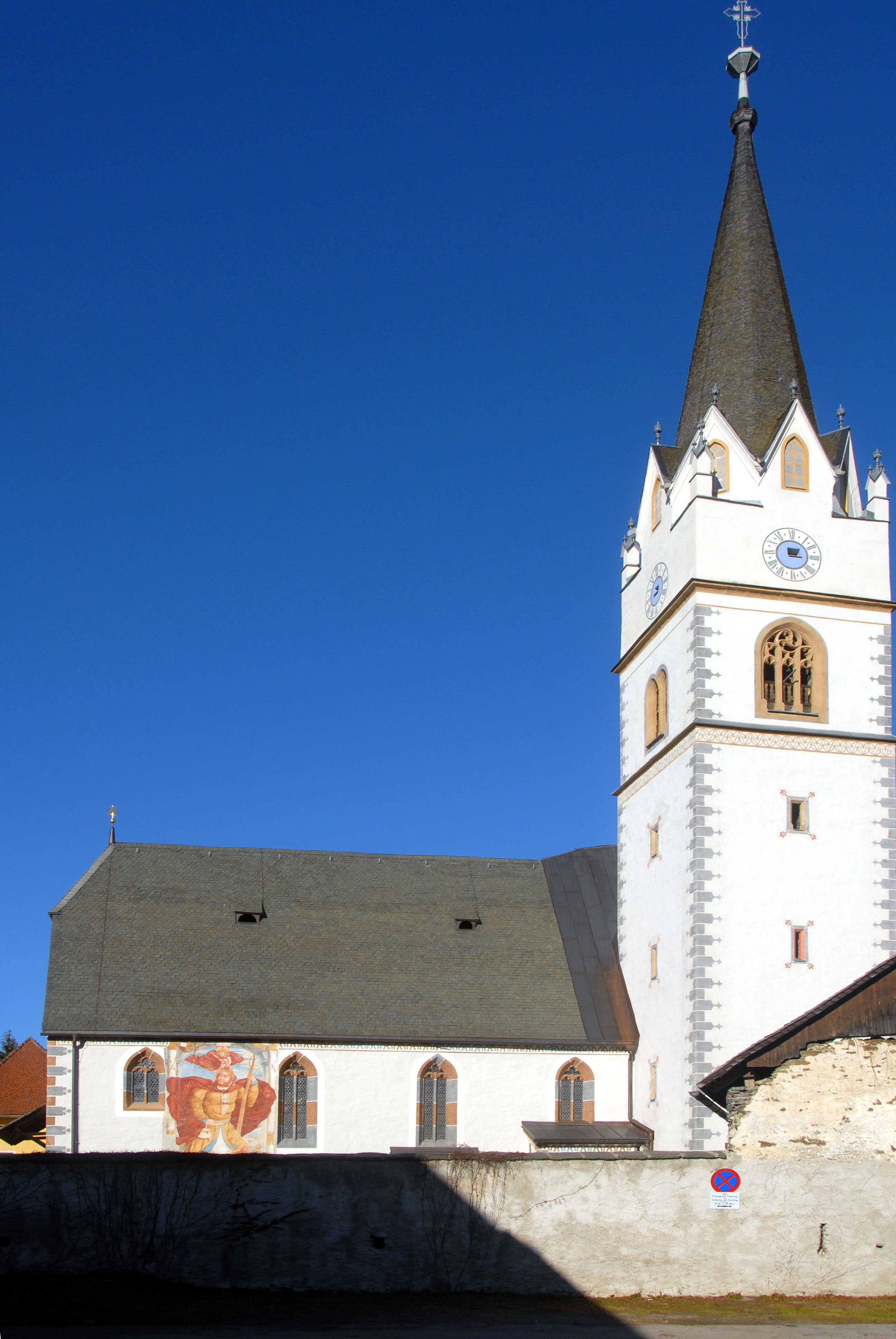 Parish church Saint Emilianus in Altenmarkt, market town Weitensfeld, district Sankt Veit, Carinthia, Austria, EU